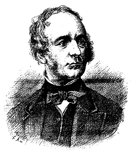 John Scott Russell (1808–1882), British engineer